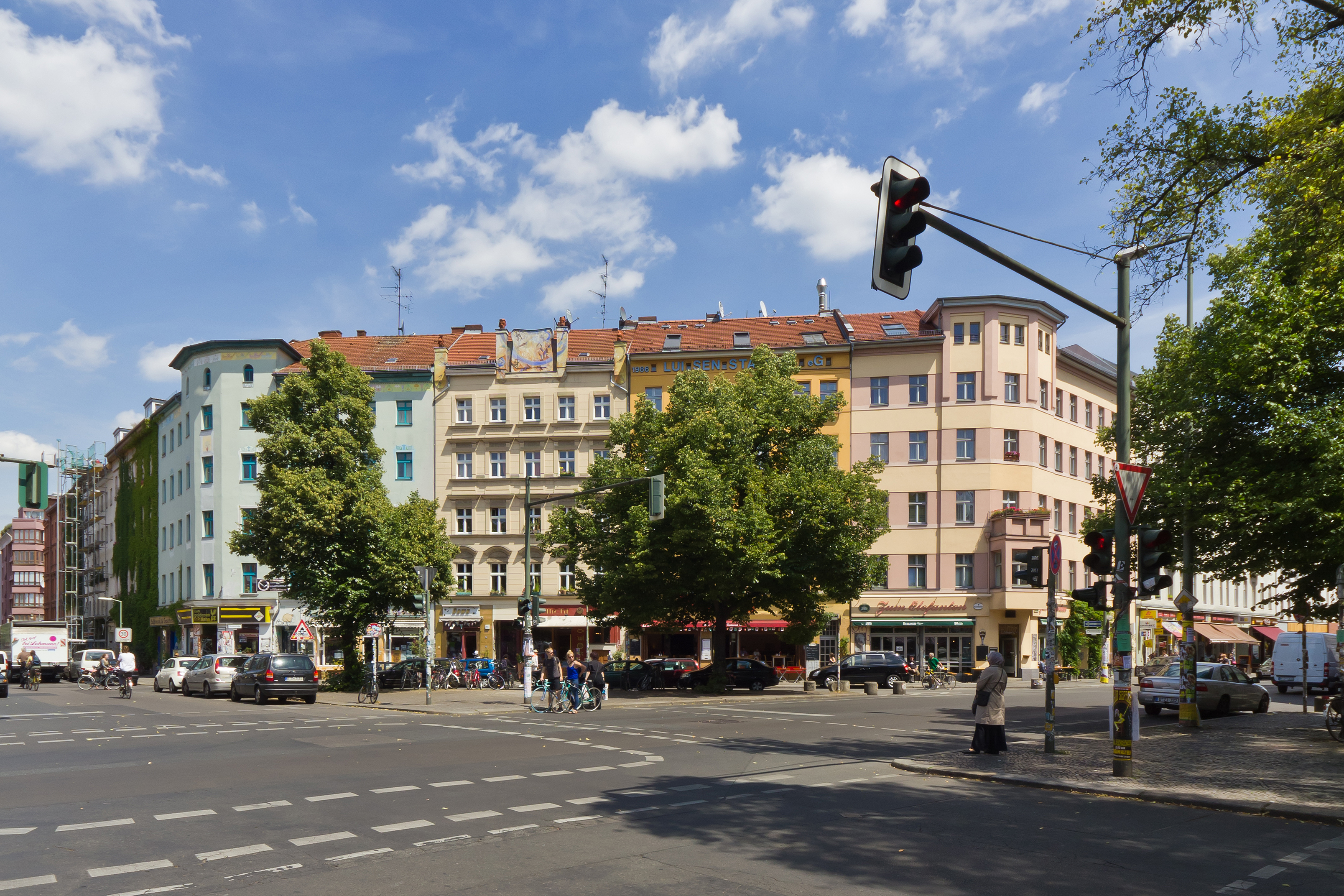 The Heinrichplatz in Berlin, Germany